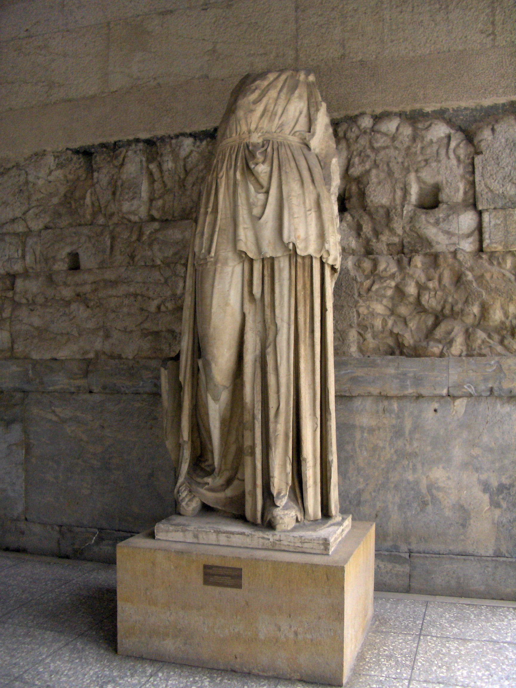 Possibly the cult statue of the temple of Apollo Patroos in the Agora of Athens. Standing Apollo dressed in chiton, himation and peplos. Torso mended from two large fragments. The arms, kithara and the head, that was carved separately, are missing. The well preserved surface suggests the statue stood indoors.